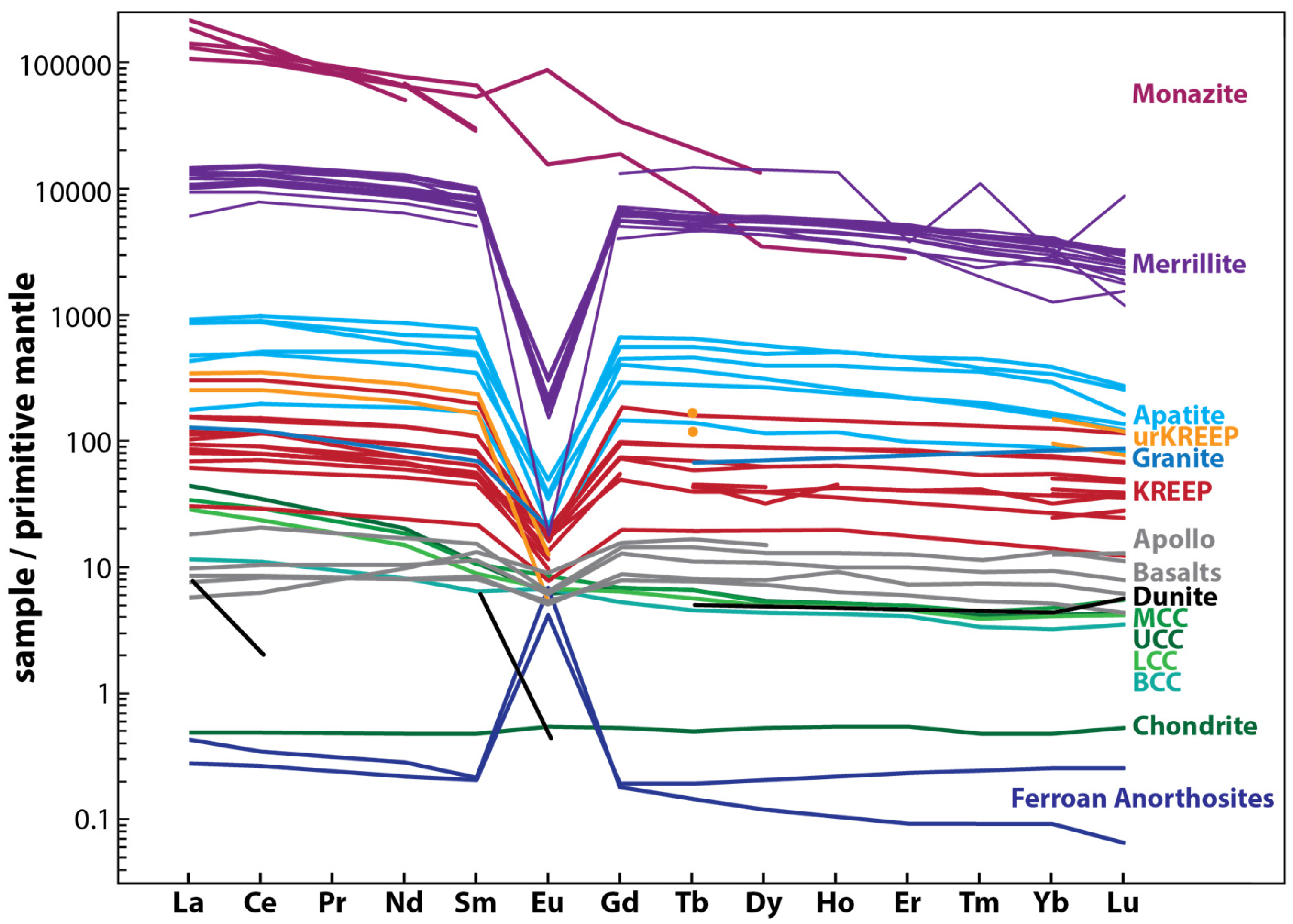 Rare-earth elements—Earth’s primitive mantle normalized concentrations of terrestrial and lunar reservoirs, rocks types, and REE-bearing phases. See Fig. 6 in source open access paper.